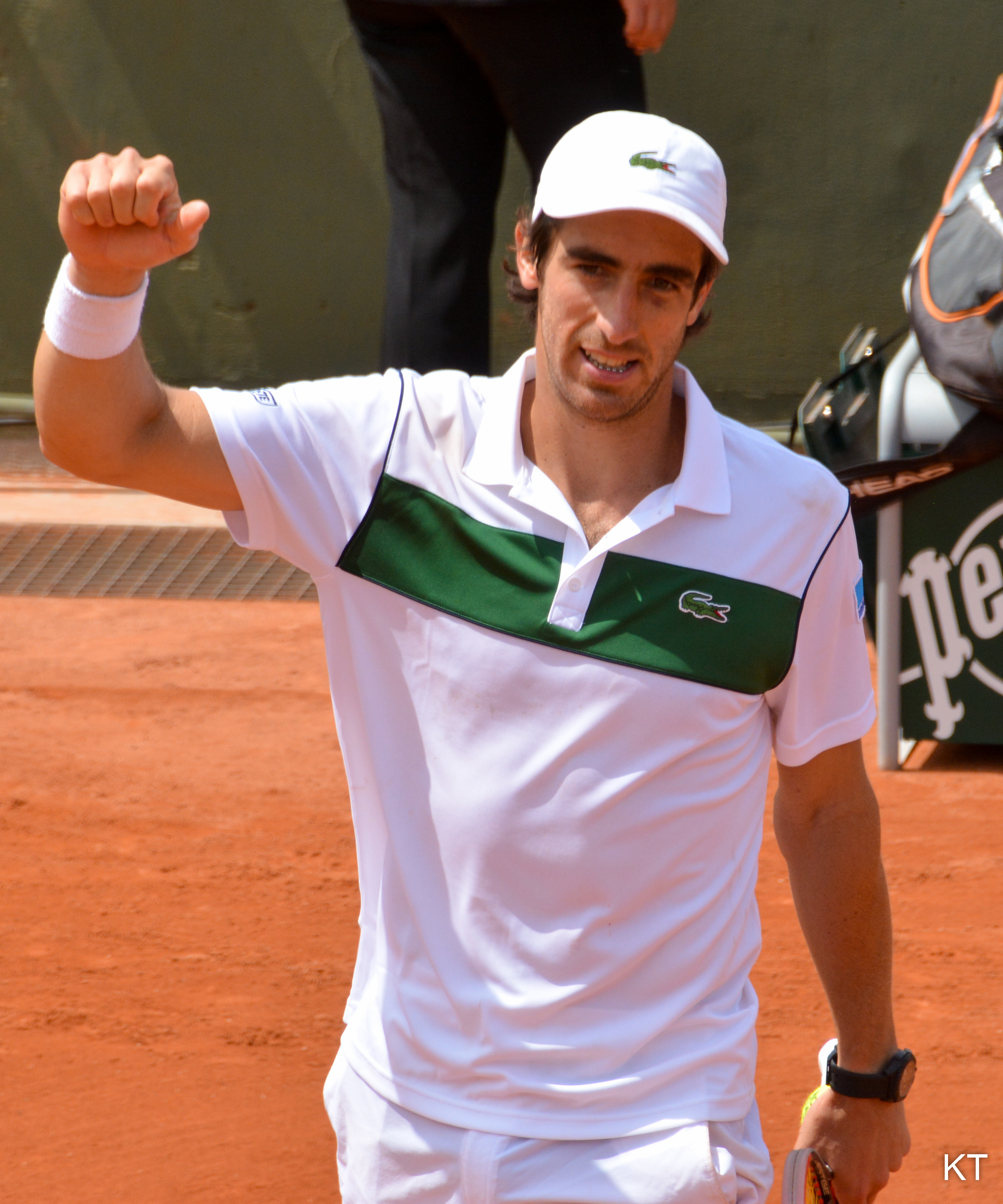 Pablo Cuevas wins his first round match with Sam Groth 6-7, 6-3, 6-3, 6-3. Day 2 of Roland Garros 2015.